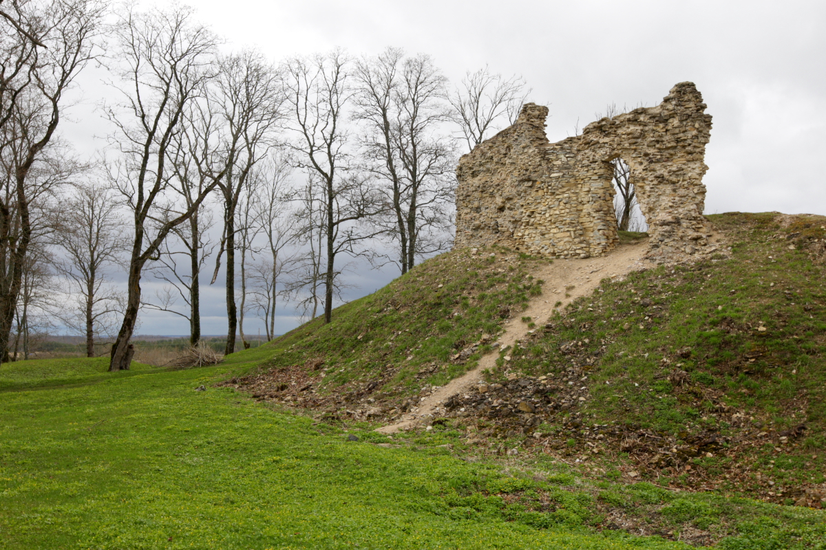 Lihula, Lääne County, Estonia